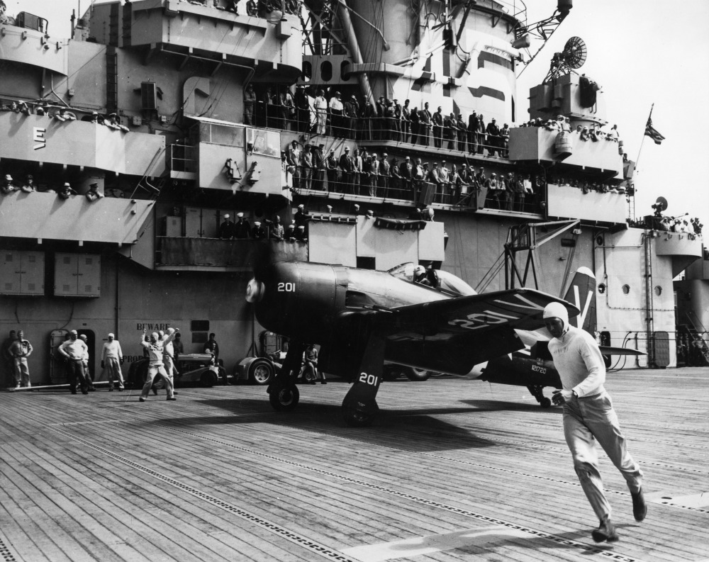 PictionID:41545033 - Title:Ray Wagner Collection Image - Catalog:16_000506 Grumman F8F-2 121710 VF-112 V201 CV-45 USS Valley Forge 1949 - Filename:16_000506 Grumman F8F-2 121710 VF-112 V201 CV-45 USS Valley Forge 1949.tif - Image from the Ray Wagner Collection. Ray Wagner was Archivist at the San Diego Air and Space Museum for several years and is an author of several books on aviation --- ---Please Tag these images so that the information can be permanently stored with the digital file.---Repository: San Diego Air and Space Museum